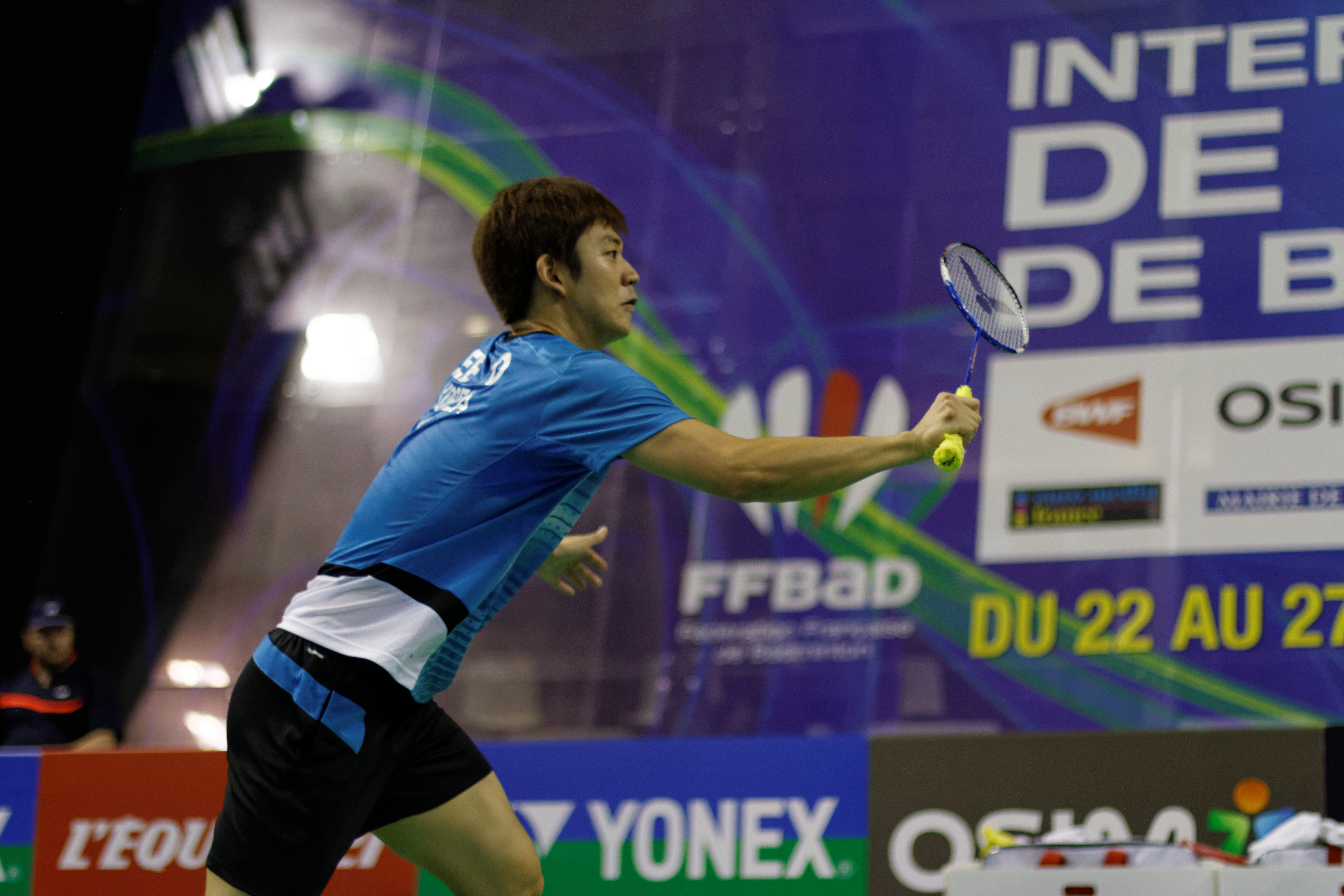 2013 French open. Men's doubles quarterfinal. Hoon Thien How and Tan Wee Kiong vs Lee Yong-dae and Yoo Yeon-seong.